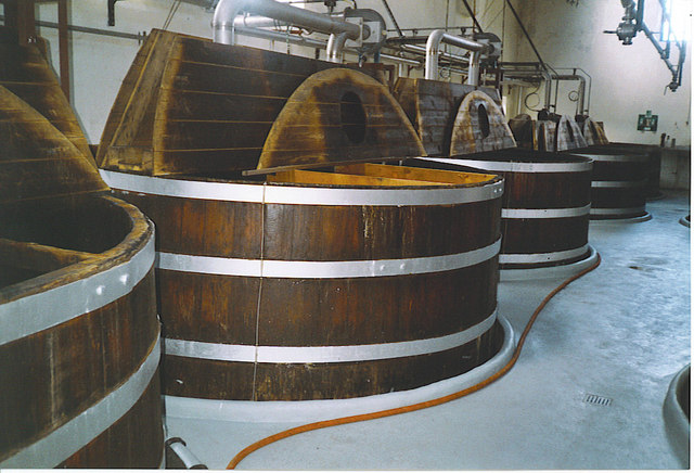 Glendronach Distillery, Mash Tuns. The tuns were empty, awaiting the next mash.